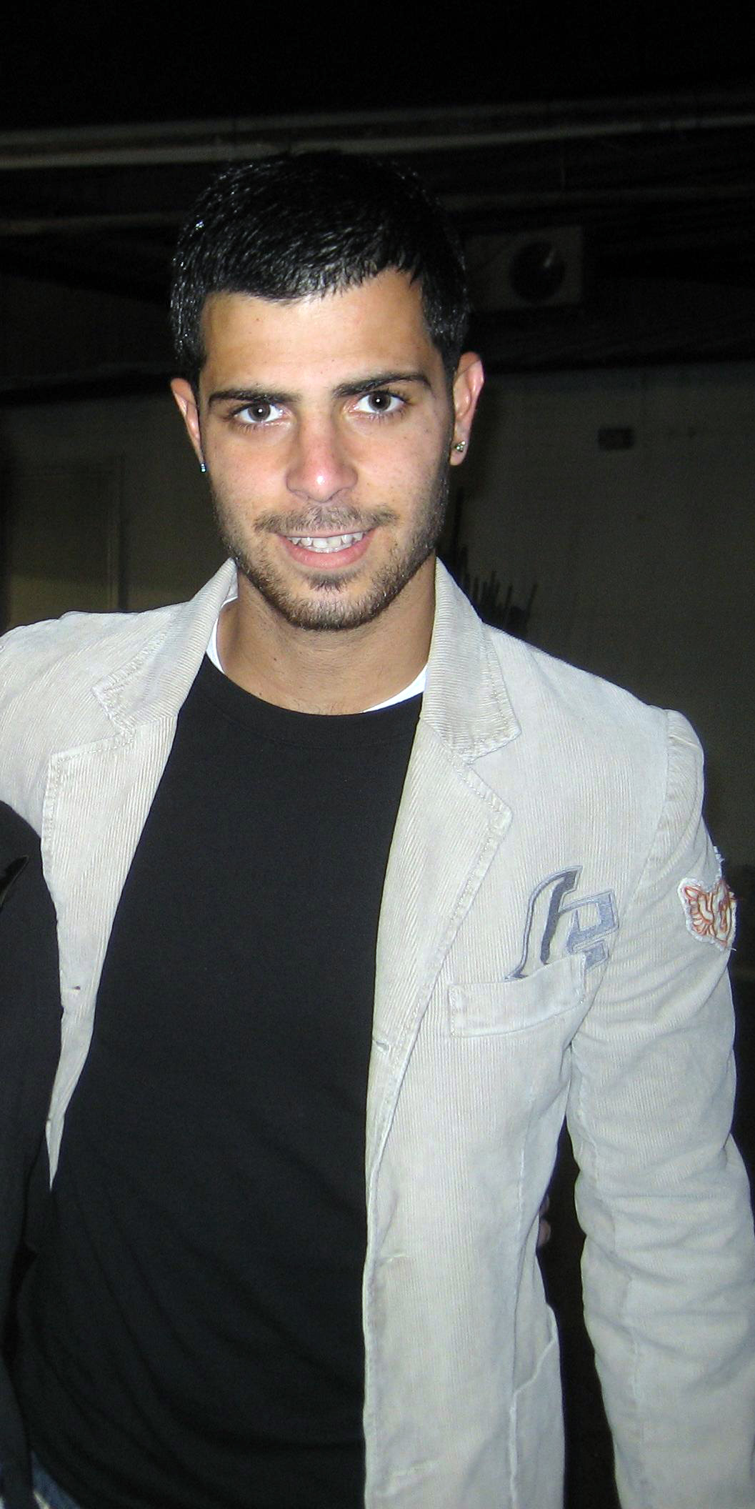 Israeli footballer Eden Ben Basat poses for a photograph outside Qiryat Eliezer Stadium.